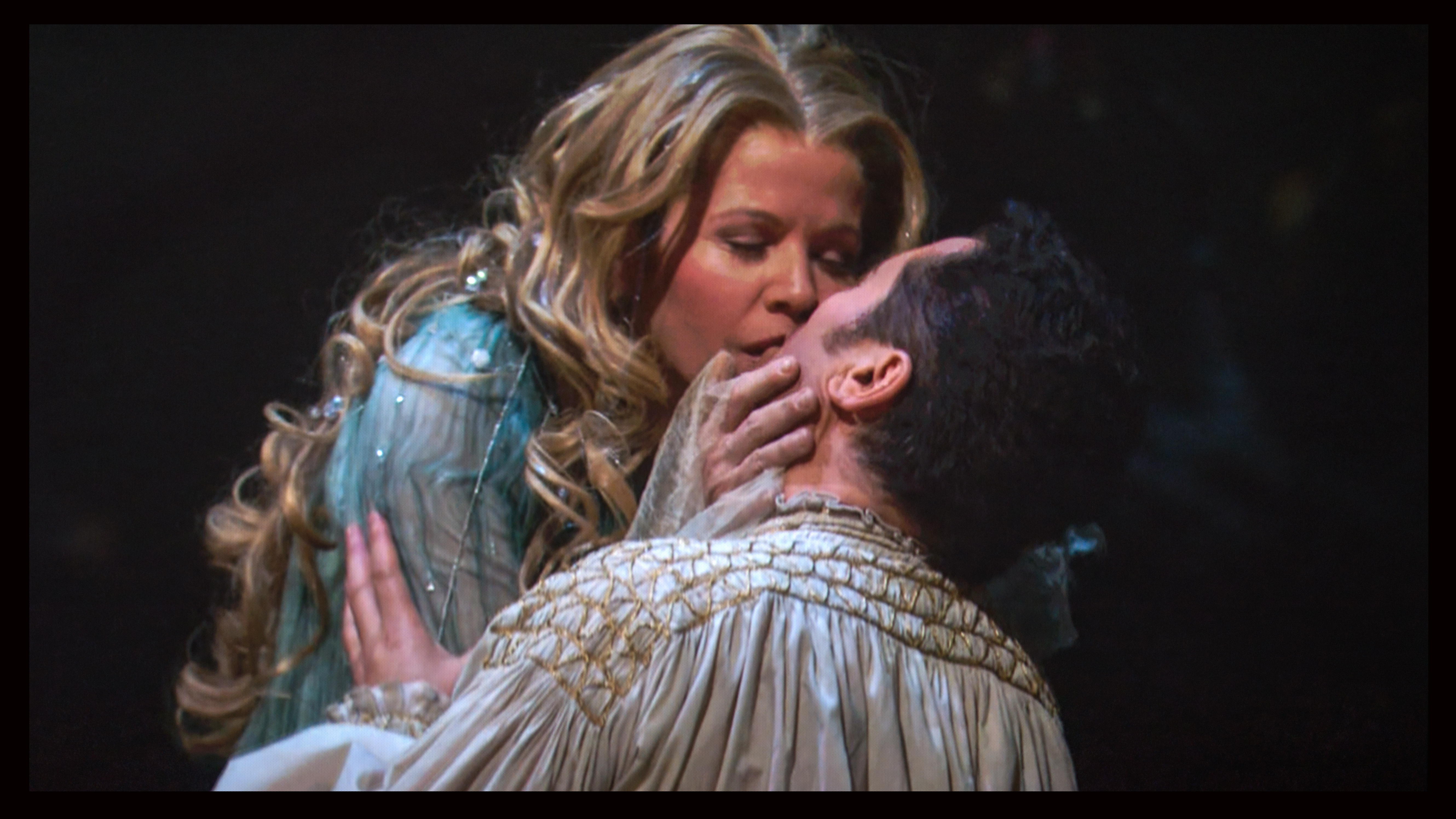 Rusalka at the Metropolitan Opera in New York